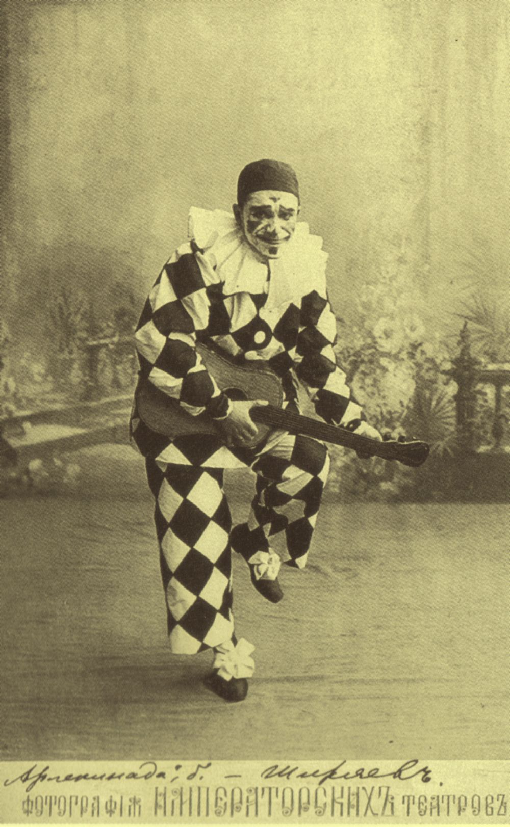 Cropped photographic postcard of the danseur Alexander Shiryaev (1867–1941) costumed as Harlequin for the scene Sérénade from the choreographer Marius Petipa (1818-1910) and the composer Riccardo Drigo's (1846-1930) ballet Les Millions d'Arlequin, a.k.a. Harlequinade (first produced in 1900).